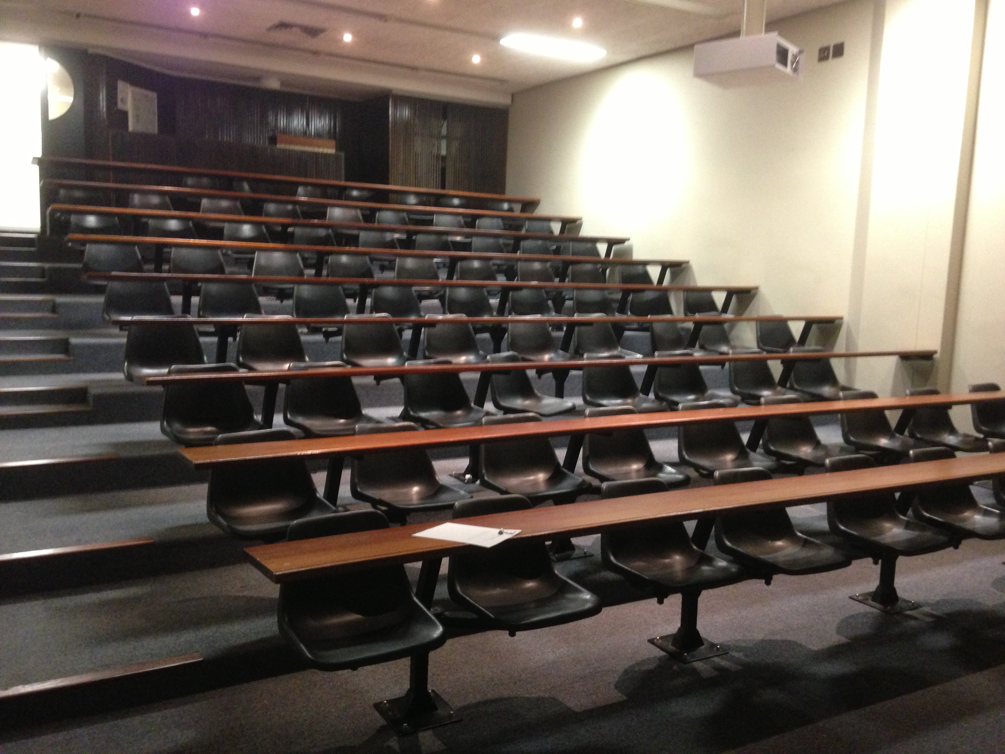 A classroom in Leslie Social Science, University of Cape Town